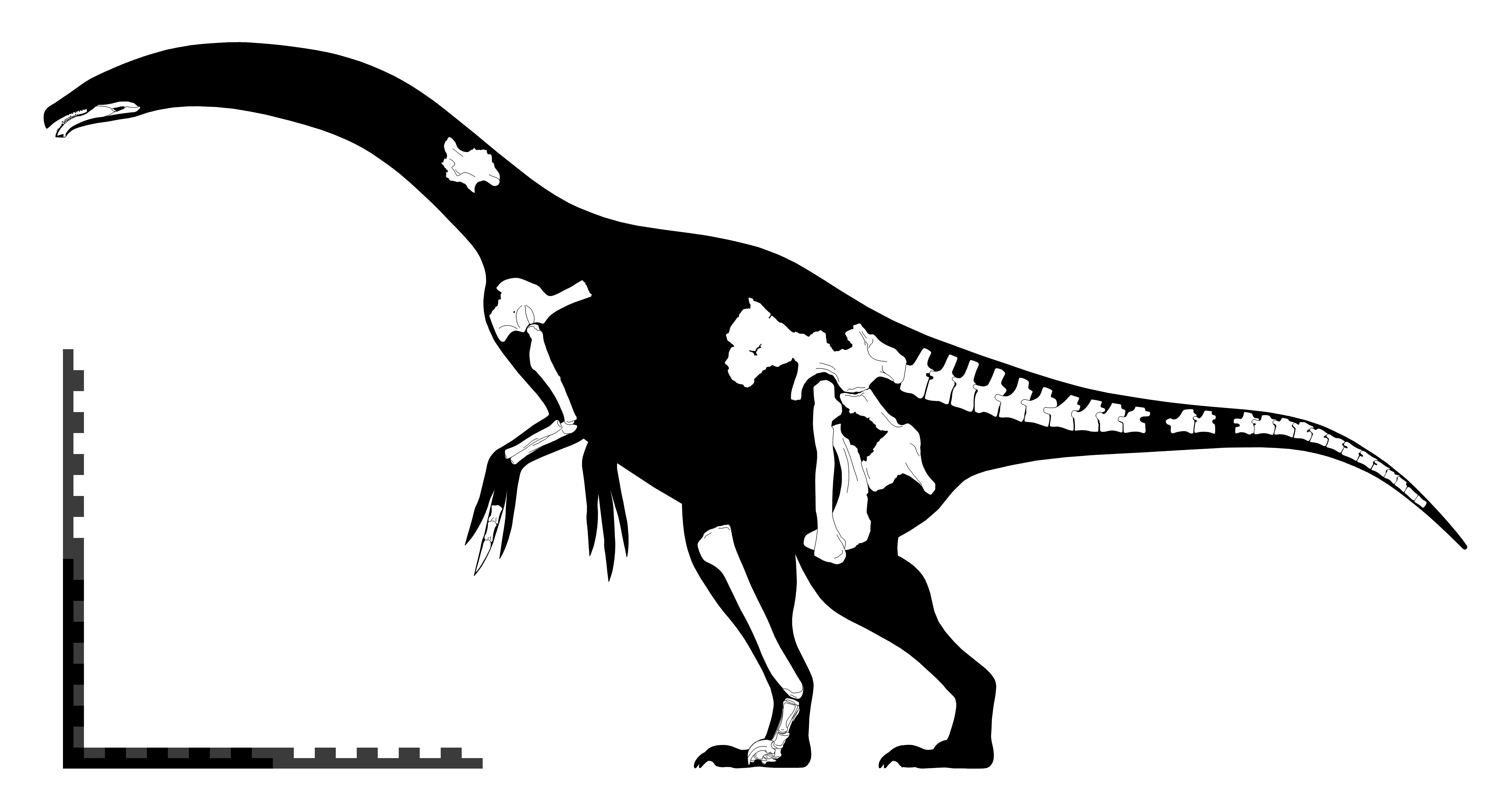 Skeletal diagram displaying the known material of Segnosaurus, with unfigured and undescribed caudals in grey due to uncertainties surrounding their anatomy. All material is taken from related therizinosaurs and multiple individuals are cross scaled to the size of the holotype. Segnosaurus: Perle, A. (1979). "Segnosauridae – novoe semeistvo teropod is posdnego mela Mongolii". Trudy – Sovmestnaya Sovetsko-Mongol'skaya Paleontologicheskaya Ekspeditsiya (in Russian). 8: 45–55. Zanno, L. E. (2010). "A taxonomic and phylogenetic re-evaluation of Therizinosauria (Dinosauria: Maniraptora)". Journal of Systematic Palaeontology. 8 (4): 503–543. Erlikosaurus (skull): Lautenschlager, S.; Witmer, L. W.; Perle, A.; Zanno, L. E.; & Rayfield, E. J. (2014). "Cranial anatomy of Erlikosaurus andrewsi (Dinosauria, Therizinosauria): new insights based on digital reconstruction". Journal of Vertebrate Paleontology, 34(6): 1263-1291, Nanshiungosaurus (presacrals): Dong, Z. (1979). Dinosaurs from the Cretaceous of South China. "Mesozoic and Cenozoic Red Beds of South China: Selected Papers from the Cretaceous-Tertiary Workshop". Institute of Vertebrate Paleontology and Paleoanthropology & Nanjing Institute of Paleontology, pp. 342–350 Neimongosaurus (caudals): Zhang, X.H.; Xu, X.; Zhao, Z.J.; Sereno, P.; Kuang, X.W.; Tan, L. (2001). "A long-necked therizinosauroid dinosaur from the Upper Cretaceous Iren Dabasu Formation of Nei Mongol, People's Republic of China". Vertebrata PalAsiatica. 39(4): 282–290. Erliansaurus (manus, femur): Xu, X.; Zhang, Z.H.; Sereno, P.C.; Zhao, X.J.; Kuang, X.W.; Han, J.; Tan, L. (2002). "A new therizinosauroid (Dinosauria, Theropoda) from the Upper Cretaceous Iren Dabasu Formation of Nei Mongol". Vertebrata PalAsiatica. 40: 228–240. Erlikosaurus (pes): Perle, A. (1981). "Noviy segnozavrid iz verchnego mela Mongolii". Trudy - Sovmestnaya Sovetsko-Mongol'skaya Paleontologicheskaya Ekspeditsiya. 15: 50–59.